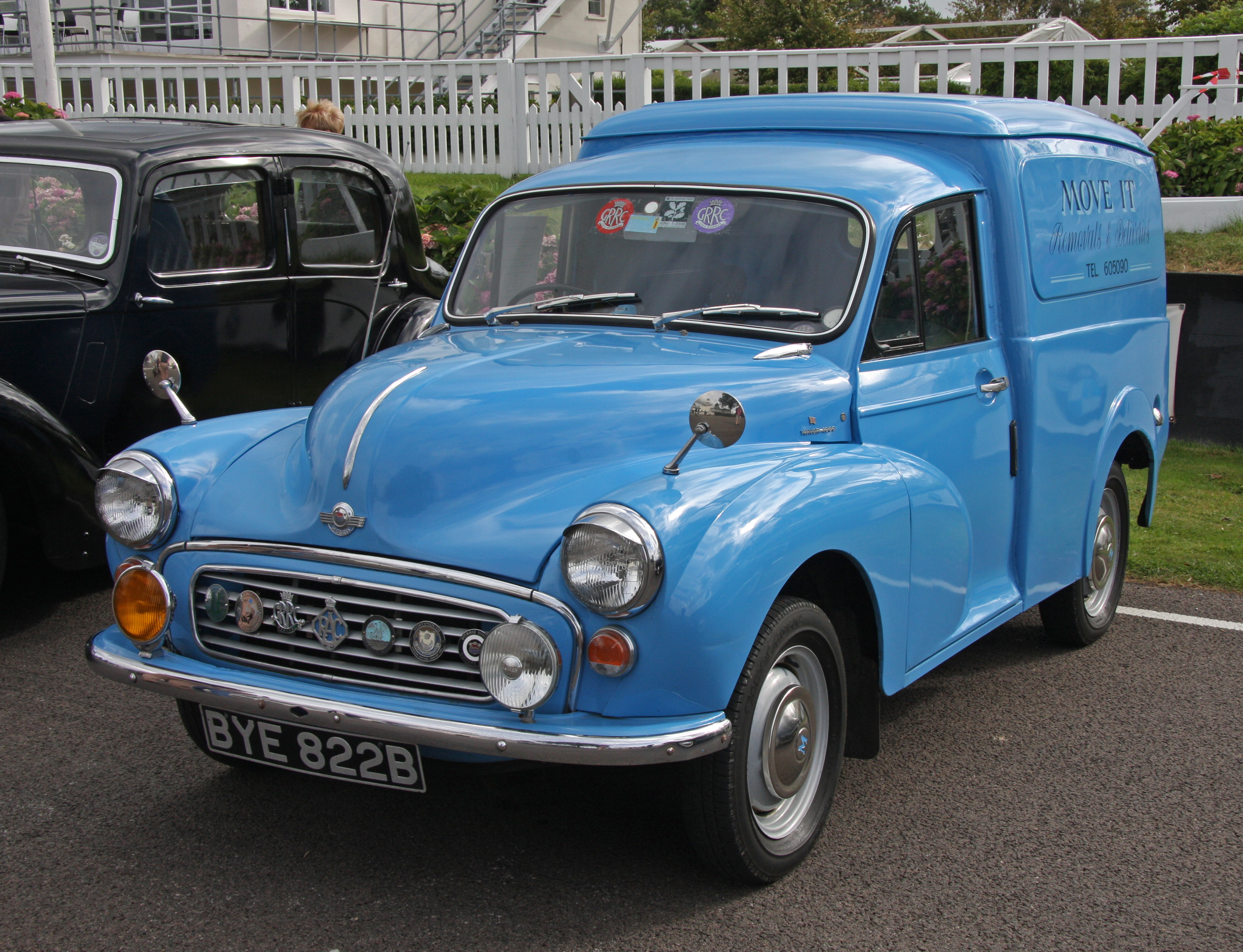 Morris 6 Cwt Van